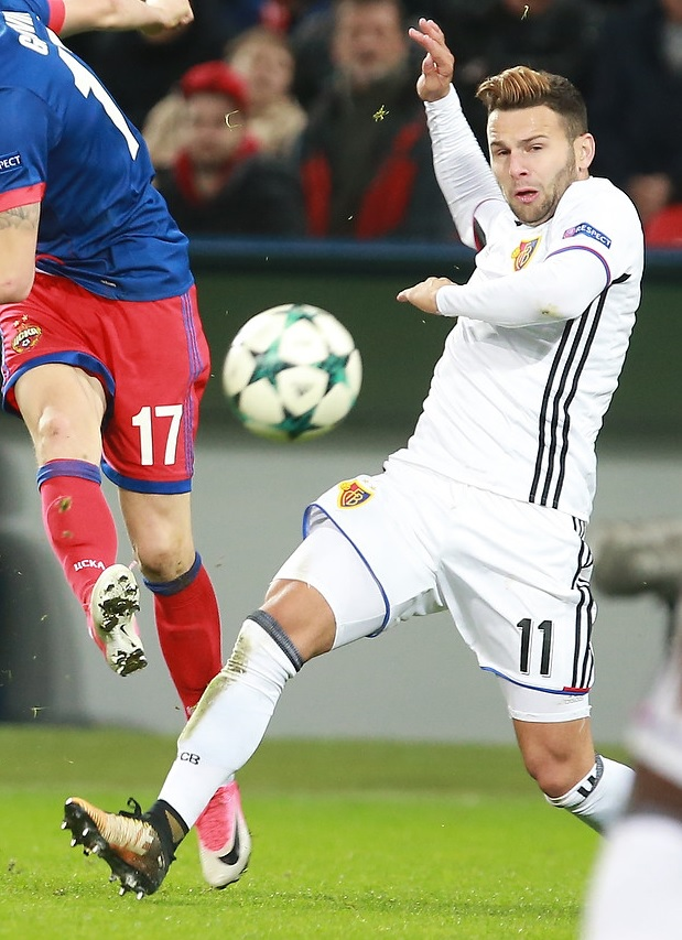 Renato Steffen with Basel in a Champions League game against CSKA Moscow.